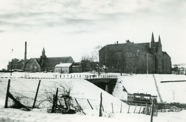 Høiskolebroen (the College bridge). When NTH, The Norwegian Institute of Technology, was established in 1910, they constructed a road from Gløshaugen to the street Øvre Allé. In 1927, the road was partly transformed into a bridge, to let the road and tramway pass under. Architect: Sverre Pedersen